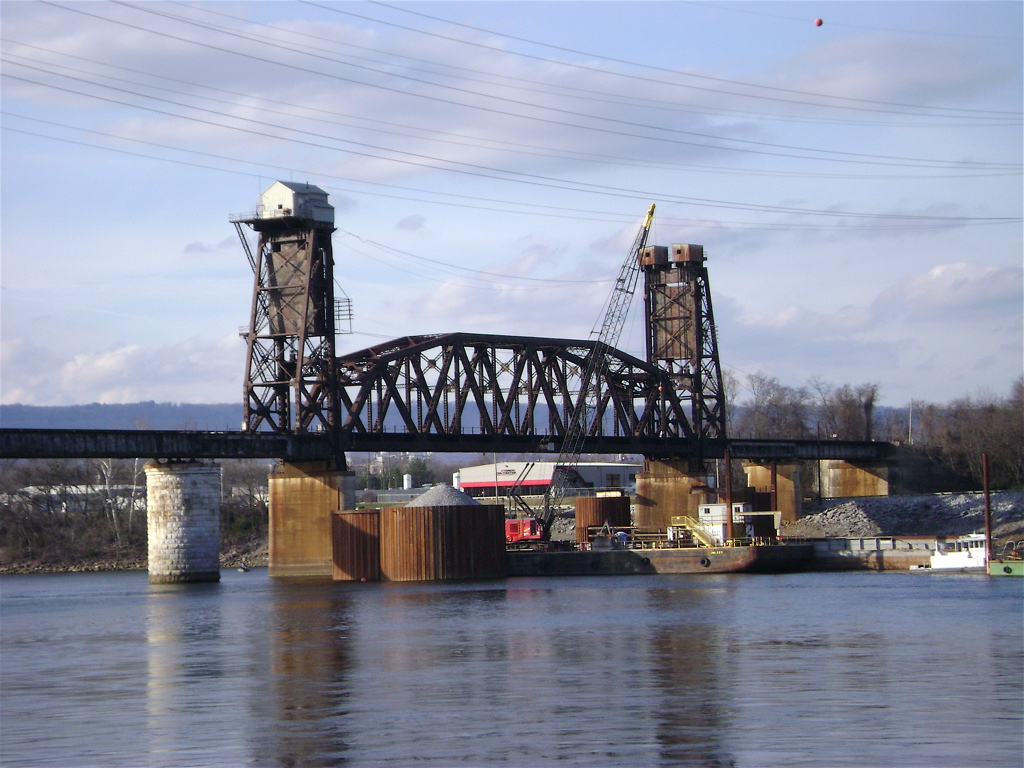 View of the Tennessee River Railroad Bridge.